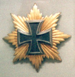 Iron cross - Bluecherstern (copy) - from exposition about the history of Iron Cross in Luftwaffenmuseum Berlin-Gatow